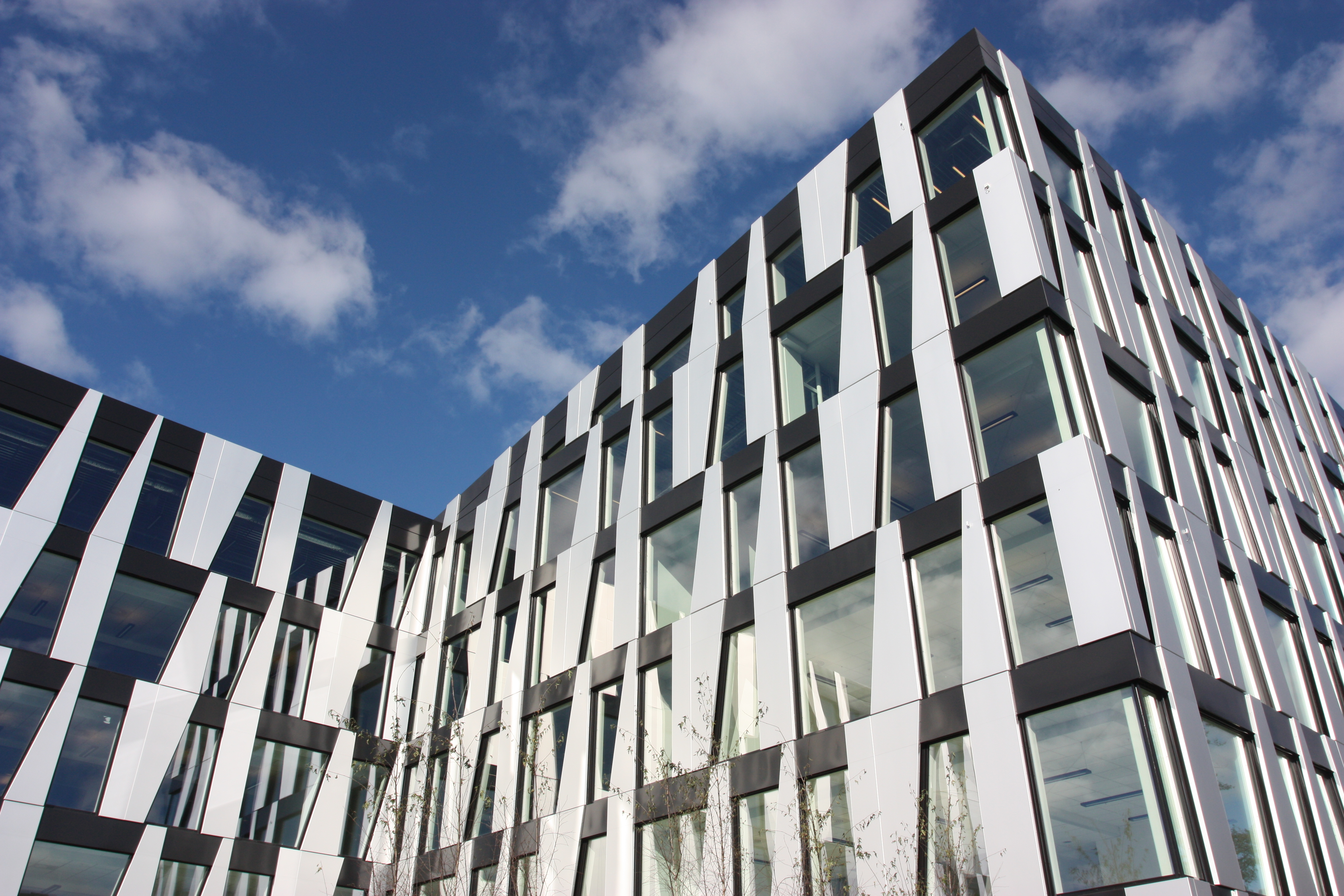 the Egmont building